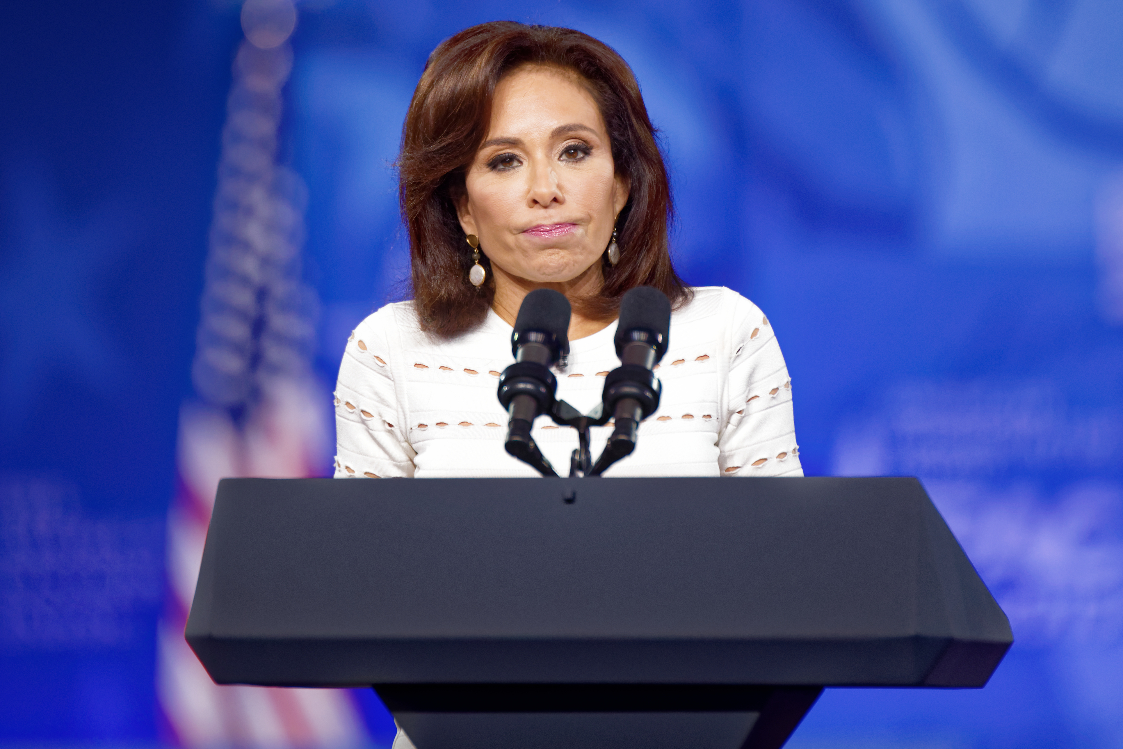 Jeanine Ferris Pirro (born June 2, 1951) is an American TV commentator and former prosecutor, judge, and Republican political candidate from the state of New York,[1][2][3][4] who is a legal analyst and television personality. Pirro is the host of Fox News Channel's political commentary television program Justice with Judge Jeanine and contributes on other Fox News programs and NBC's Today. She previously hosted a television court program, Judge Jeanine Pirro, later known simply as Judge Pirro. A Republican from Chemung County, New York, Pirro served as a county court judge before serving as the elected district attorney of Westchester County for 12 years.[5] As a district attorney she gained considerable visibility, especially in cases regarding domestic abuse and crimes against the elderly. She was the first female judge on the Westchester County Court bench. Pirro was the Republican nominee for New York Attorney General in 2006. The Conservative Political Action Conference (CPAC; /ˈsiːpæk/ see-pak) is an annual political conference attended by conservative activists and elected officials from across the United States. CPAC is hosted by the American Conservative Union (ACU).[1] In 2011, ACU took CPAC on the road with its first Regional CPAC in Orlando, Florida. Since then ACU has hosted regional CPACs in Chicago, Denver, St. Louis, and San Diego. Political front runners take the stage at this convention. Speakers have included Donald Trump,[2] Ronald Reagan,[3][4][5] George W. Bush,[6] Dick Cheney,[7] Pat Buchanan,[8] Karl Rove, Newt Gingrich,[6] Sarah Palin, Ron Paul,[9] Mitt Romney,[6] Tony Snow,[6] Glenn Beck,[10] Rush Limbaugh,[11] Ann Coulter,[7] Allen West,[12] Michele Bachmann,[13] Laura Ingraham, Sean Hannity, Gary Johnson, Mike Pence, Jeanine Pirro, Betsy DeVos, Lou Dobbs, and other conservative public figures.